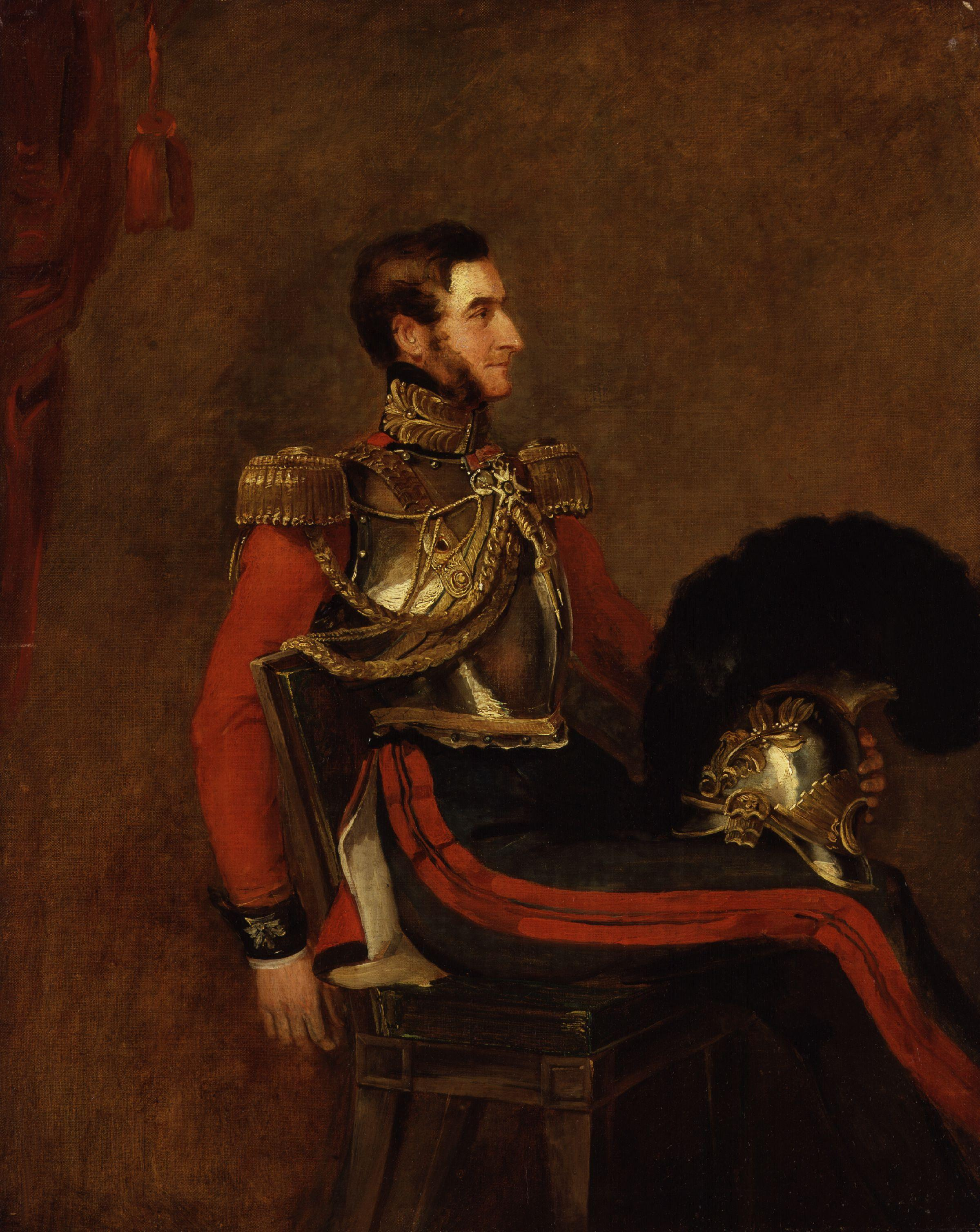 Edward Pyndar Lygon, by William Salter (died 1875). All images in this batch have been confirmed as author died before 1939 according to the official death date listed by the NPG.